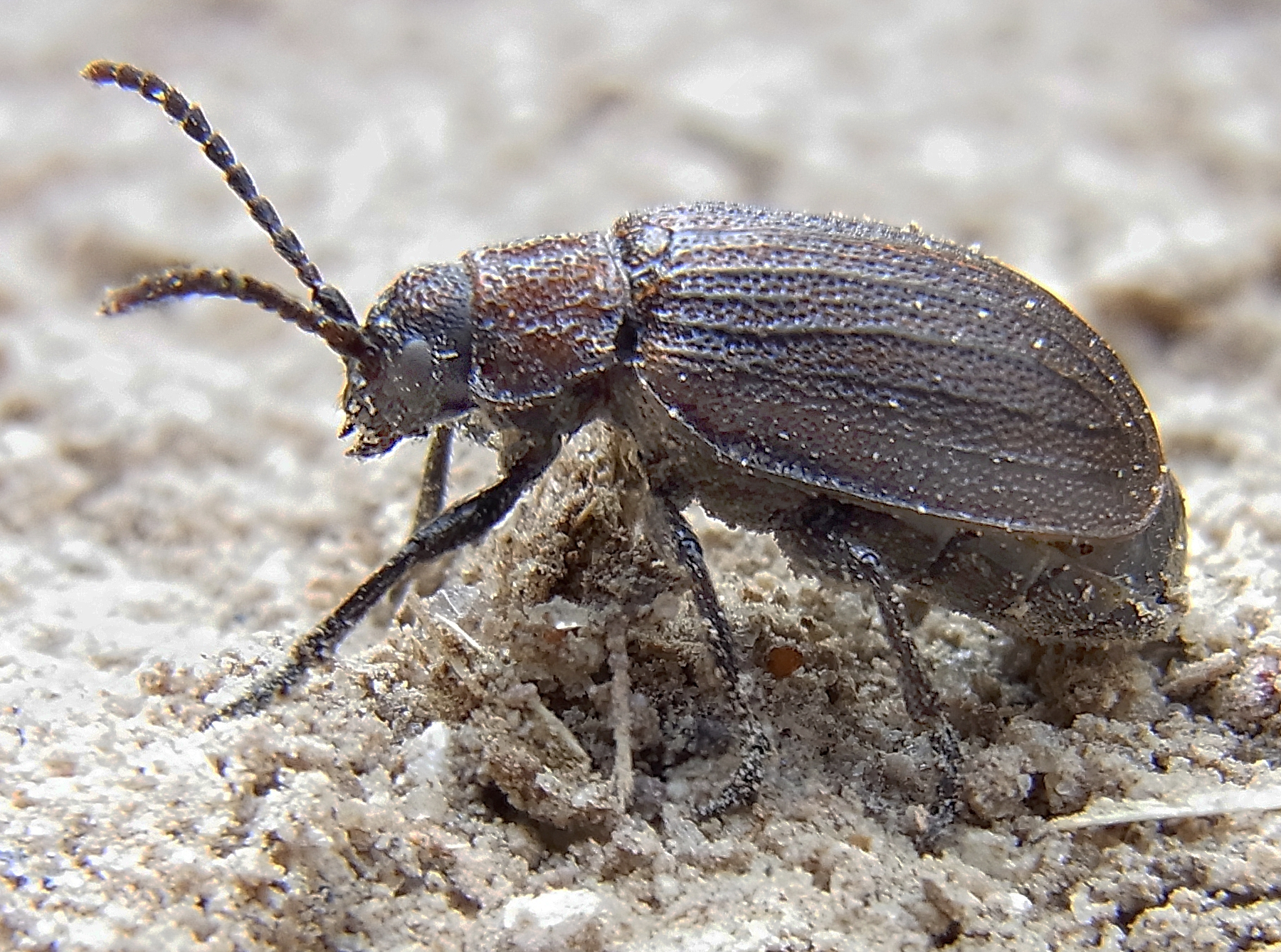 Galeruca pomonae from Hungary, propodes of Bück-mountains southwest of town Szolnok near village Cserépfalu